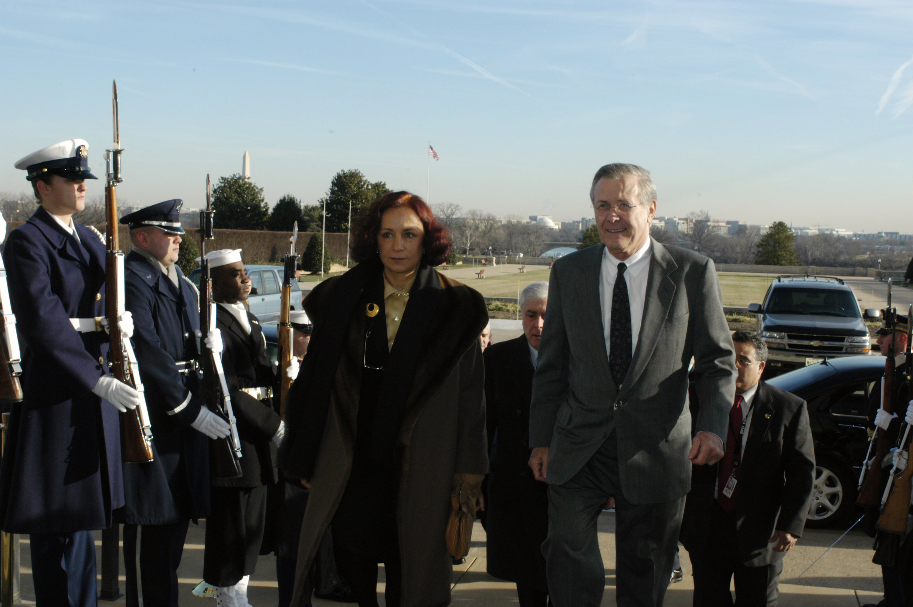 Secretary of Defense Donald H. Rumsfeld escorts Spain's Minister of Foreign Affairs Ana de Palacio into the Pentagon on Jan. 8, 2004. The two leaders are meeting to discuss defense issues of mutual interest.